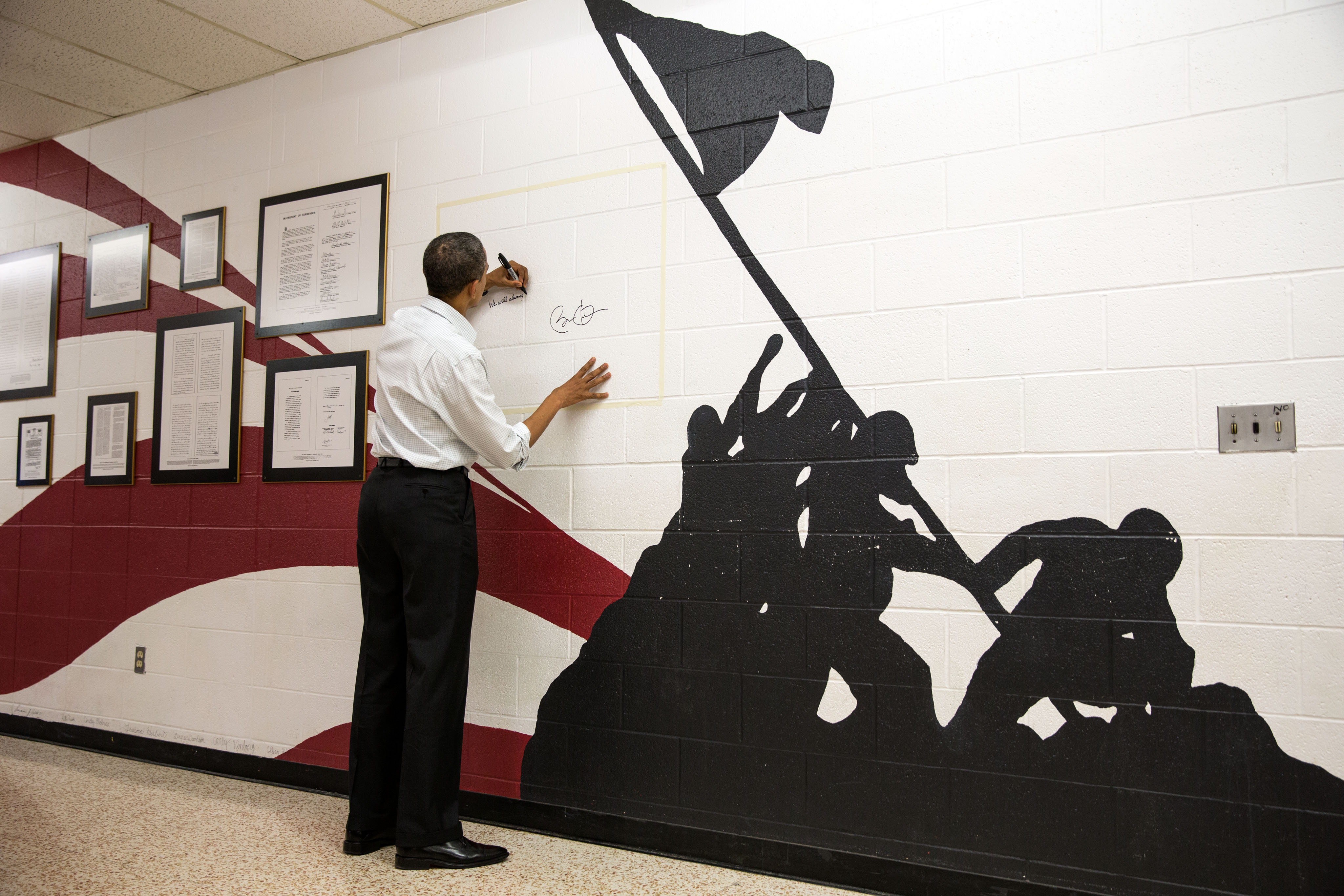 President Barack Obama signs the Wall of Freedom after an event at Mentor High School in Mentor, Ohio, Nov. 3, 2012. (Official White House Photo by Pete Souza)